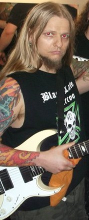 Taken with the rest of the band, but I cut it.